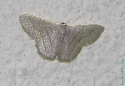 Phaiogramma stibolepida moth